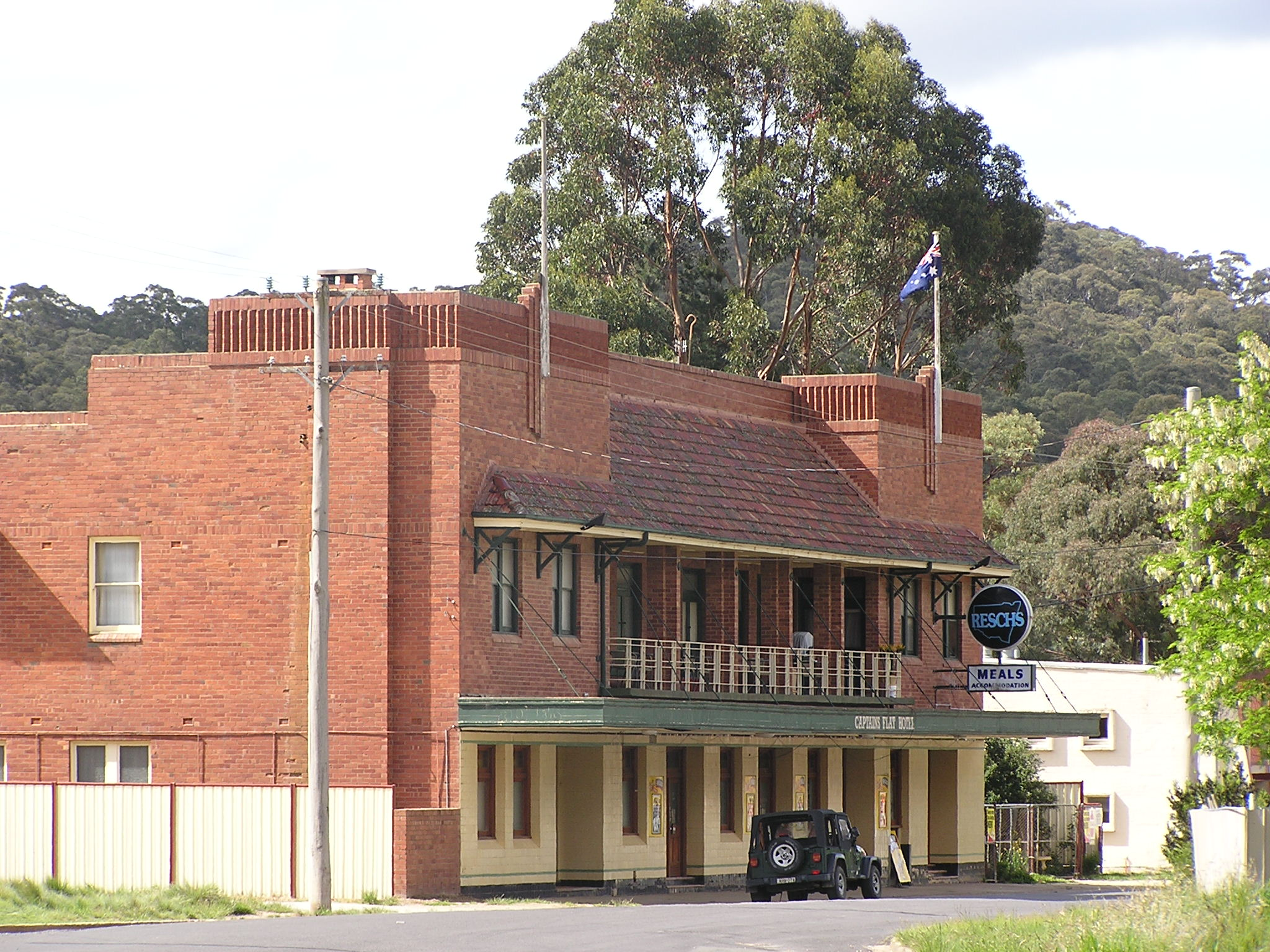 Hotel at Captains Flat, New South Wales, November 2005 Picture taken by AYArktos